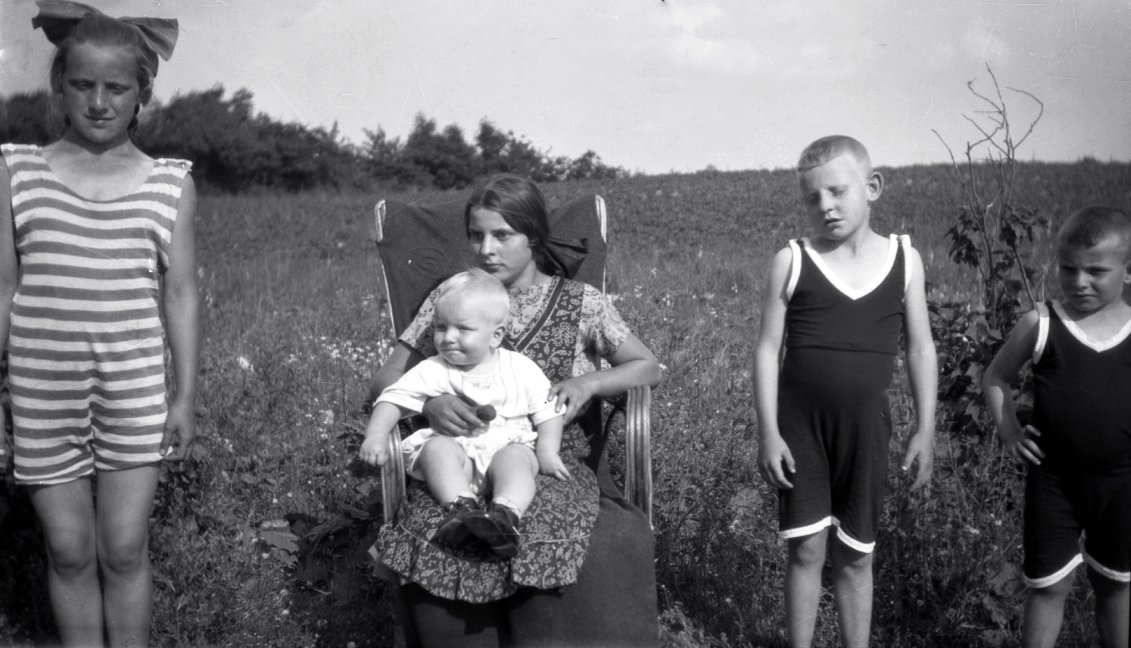 Town baker and family of German descent in Keetmanshoop, South-West Africa (Namibia) 1926.